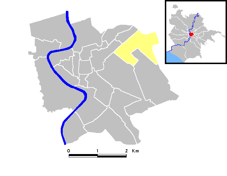 Locator maps of Rome (rioni)